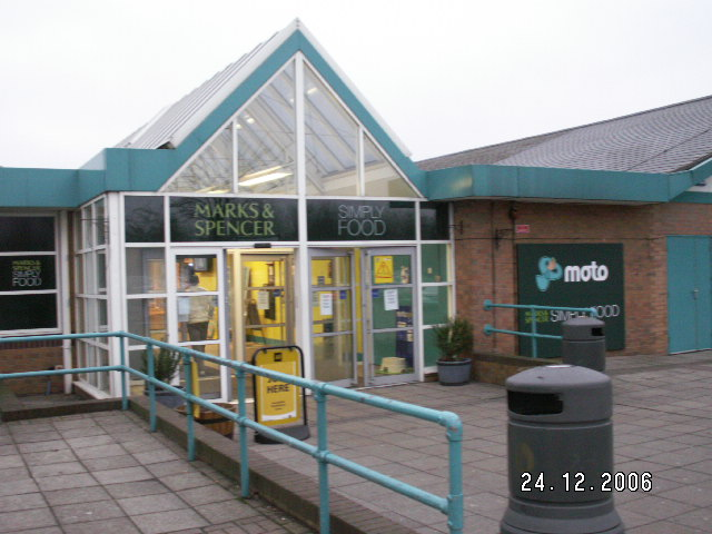 The front of Tamworth services.